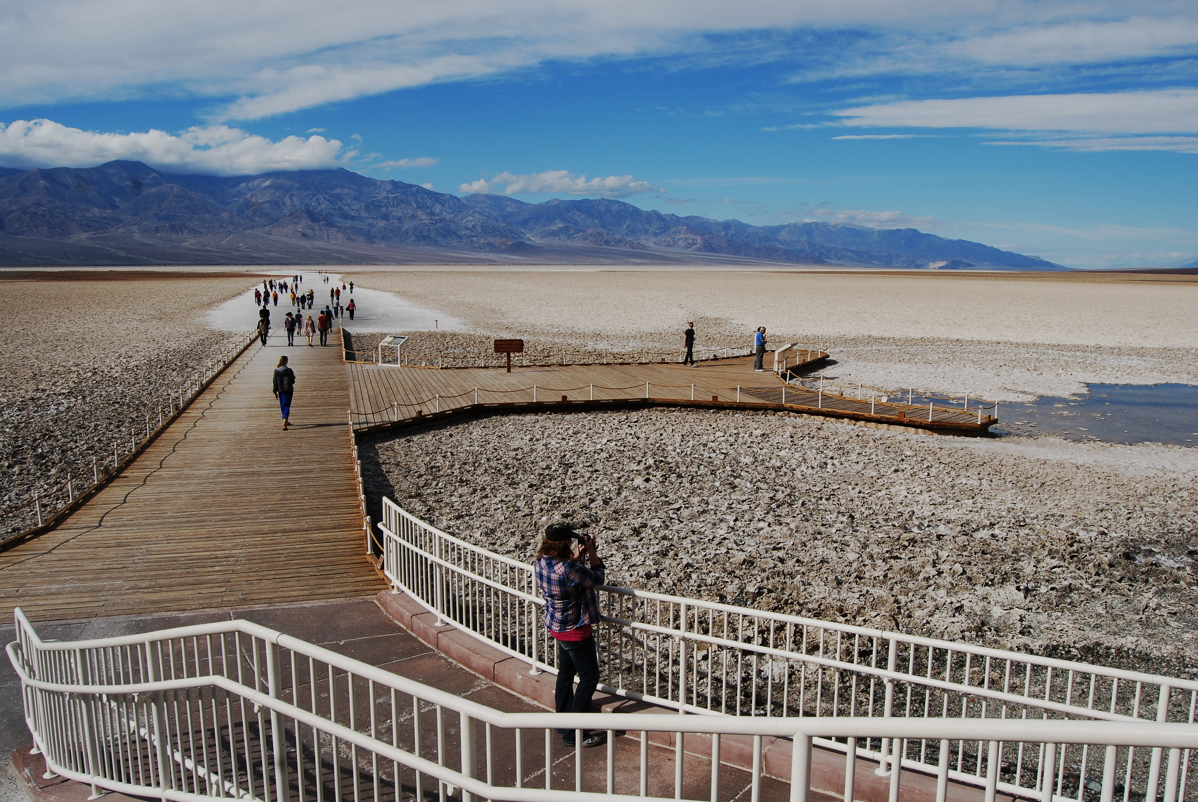 Badwater Basin in Death Valley National Park, California